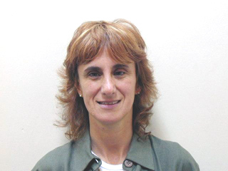 Silvia Augsburger, current member of Argentinian Chamber of Deputies